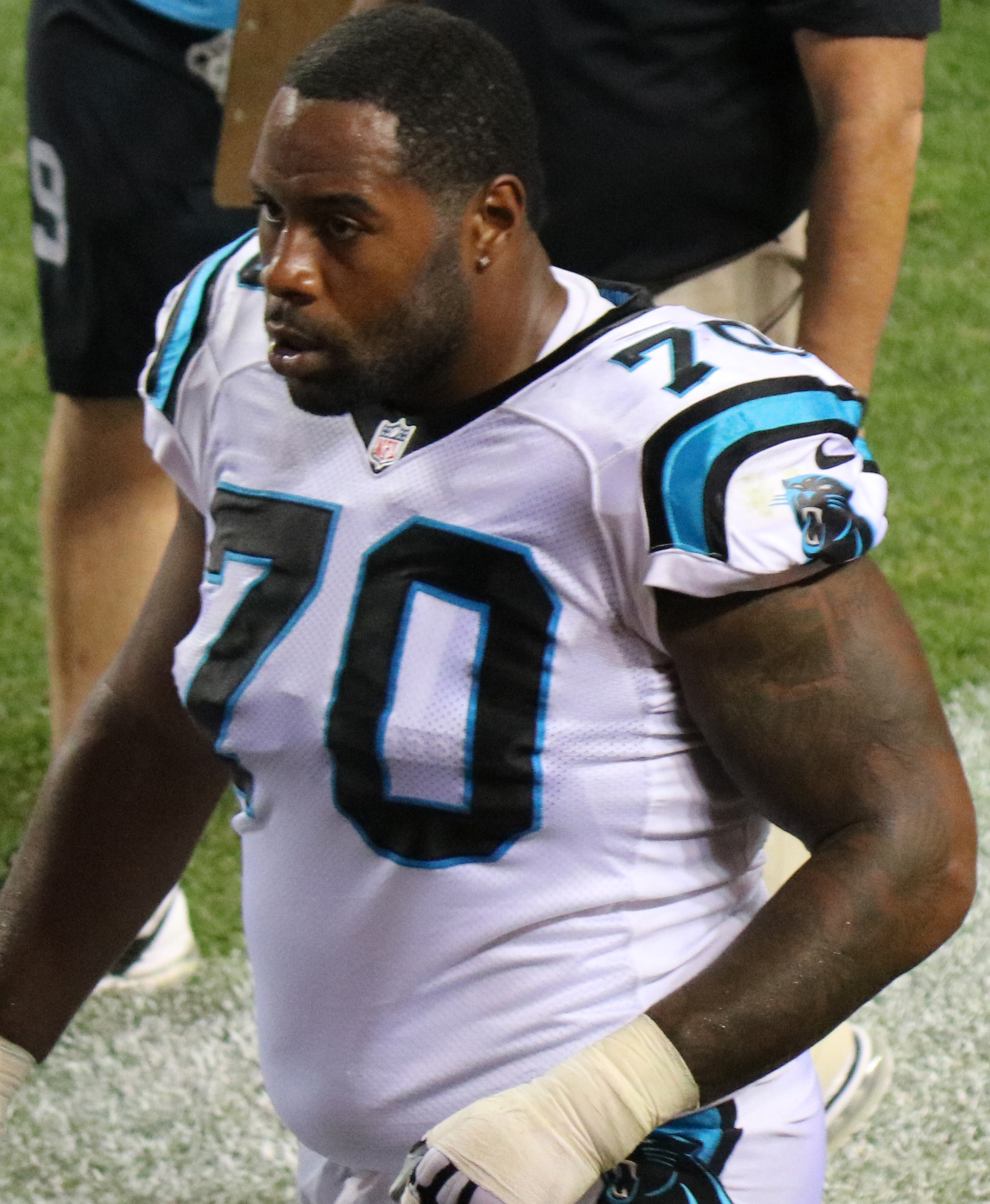 Trai Turner, a player on the National Football League.